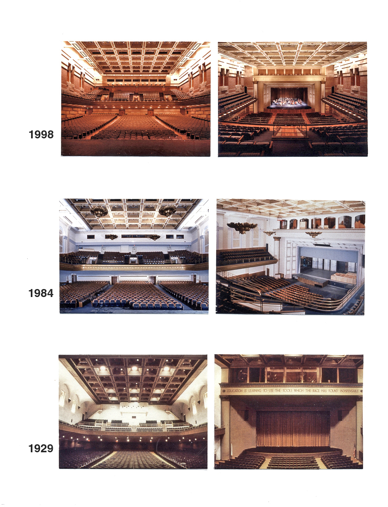 Timeline images of the auditorium of Royce Hall, from 1929, 1984 and 1998.